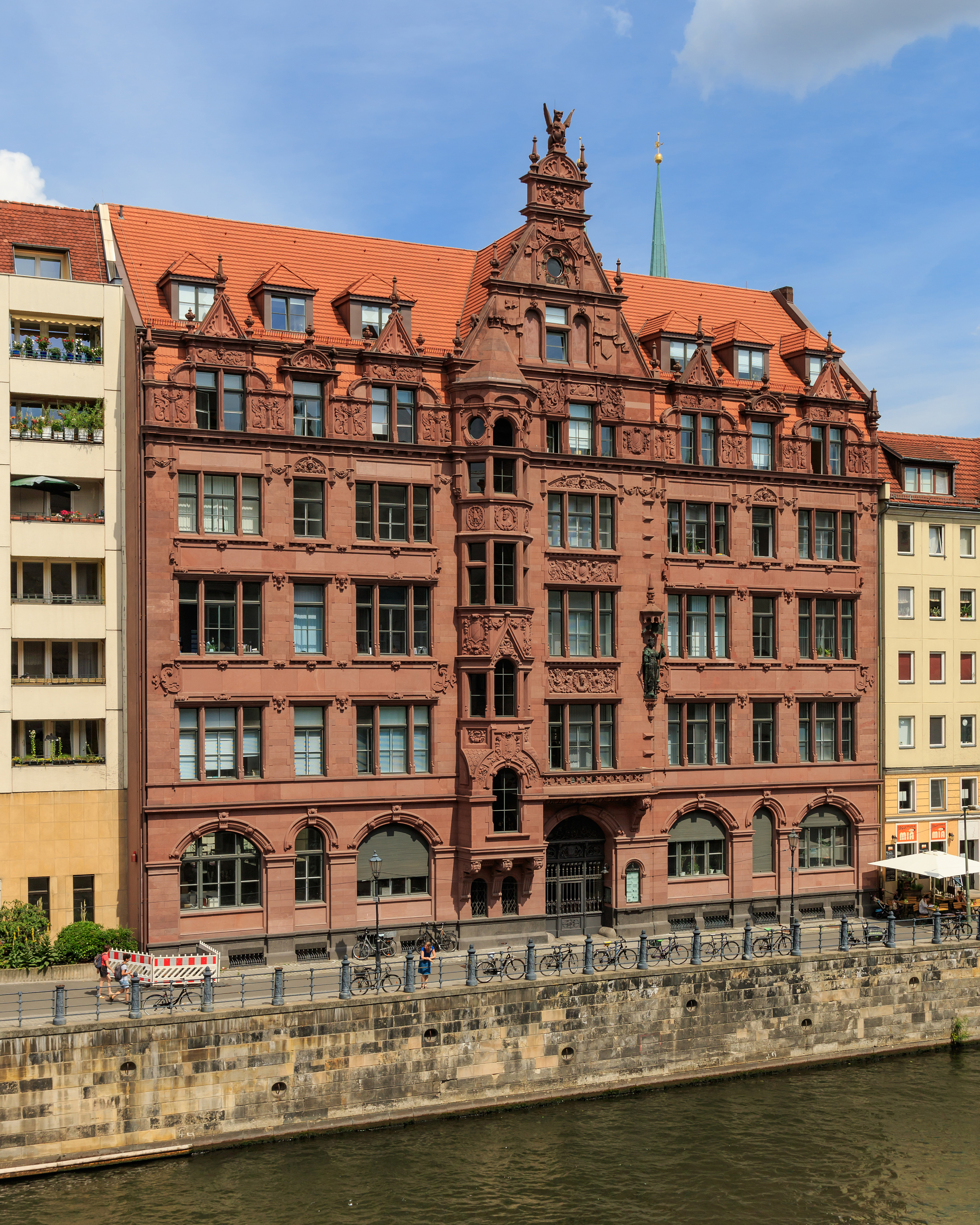 Listed building at Nikolaiviertel in Berlin (Germany)